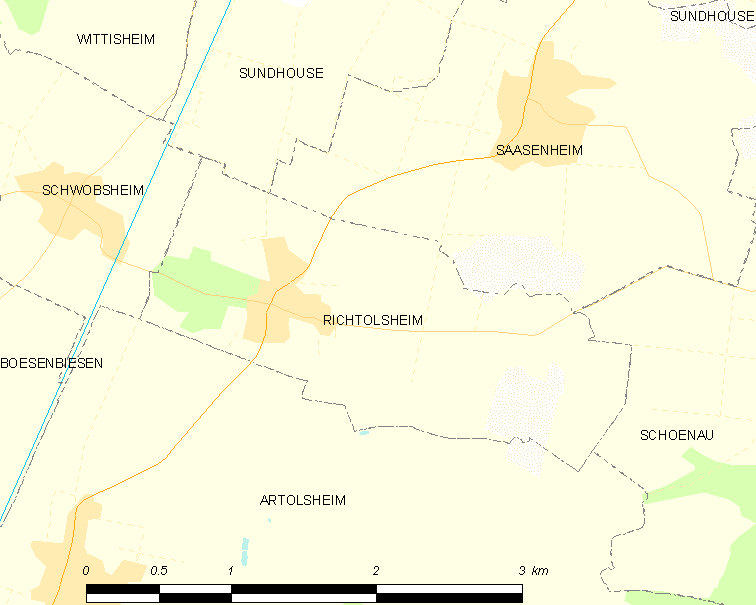 Map of French municipality